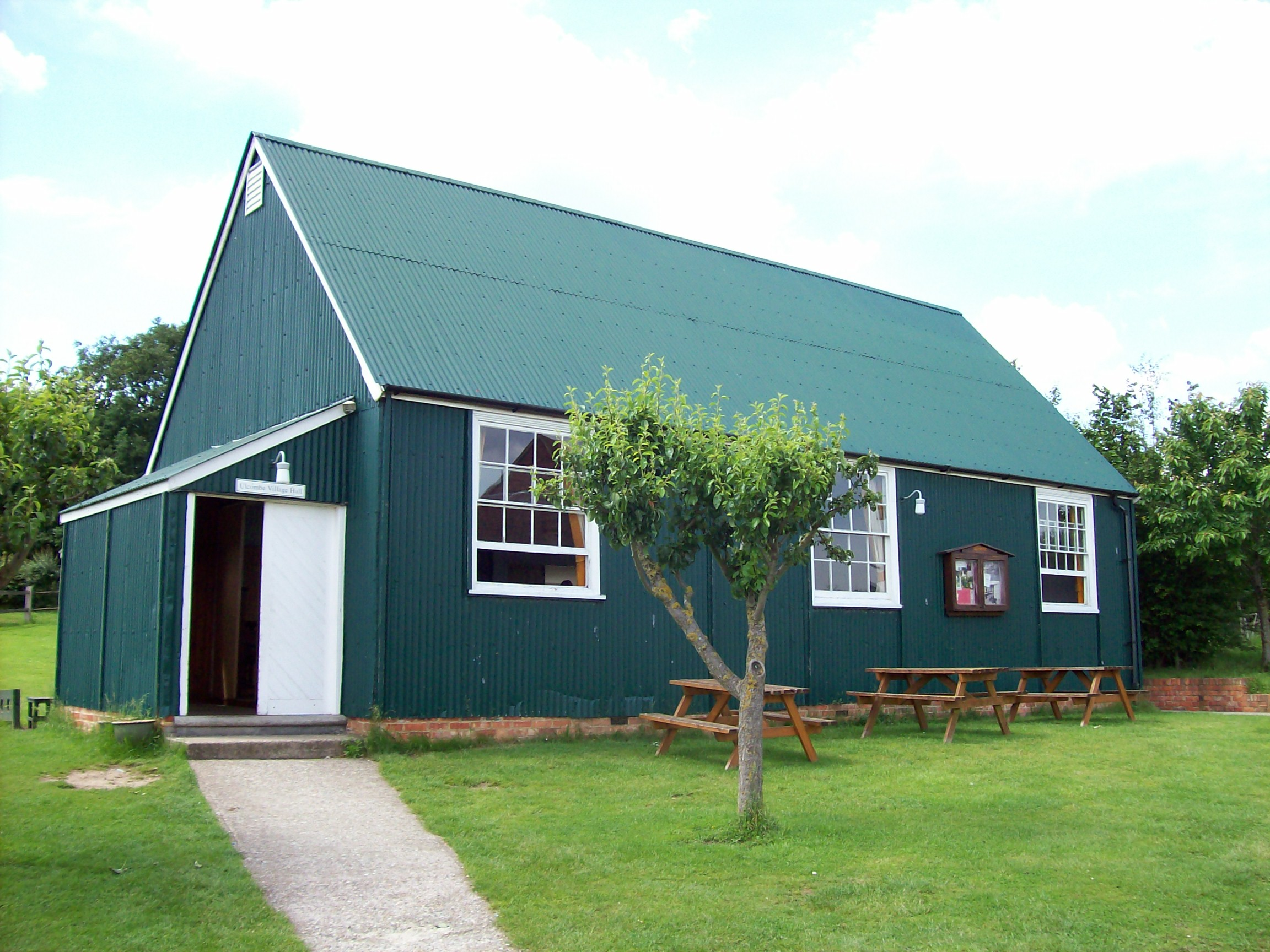 The re-erected village hall from Ulcombe at the Museum of Kent Life